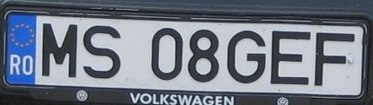 A new Romanian licence plate from Mures.